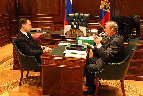 GORKI, MOSCOW REGION. With Plenipotentiary Presidential Envoy to the Ural Federal District Pyotr Latyshev.